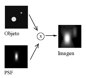 Convolution illustrated: longitudinal (XZ) central slice of a 3D image acquired by a fluorescence microscope.